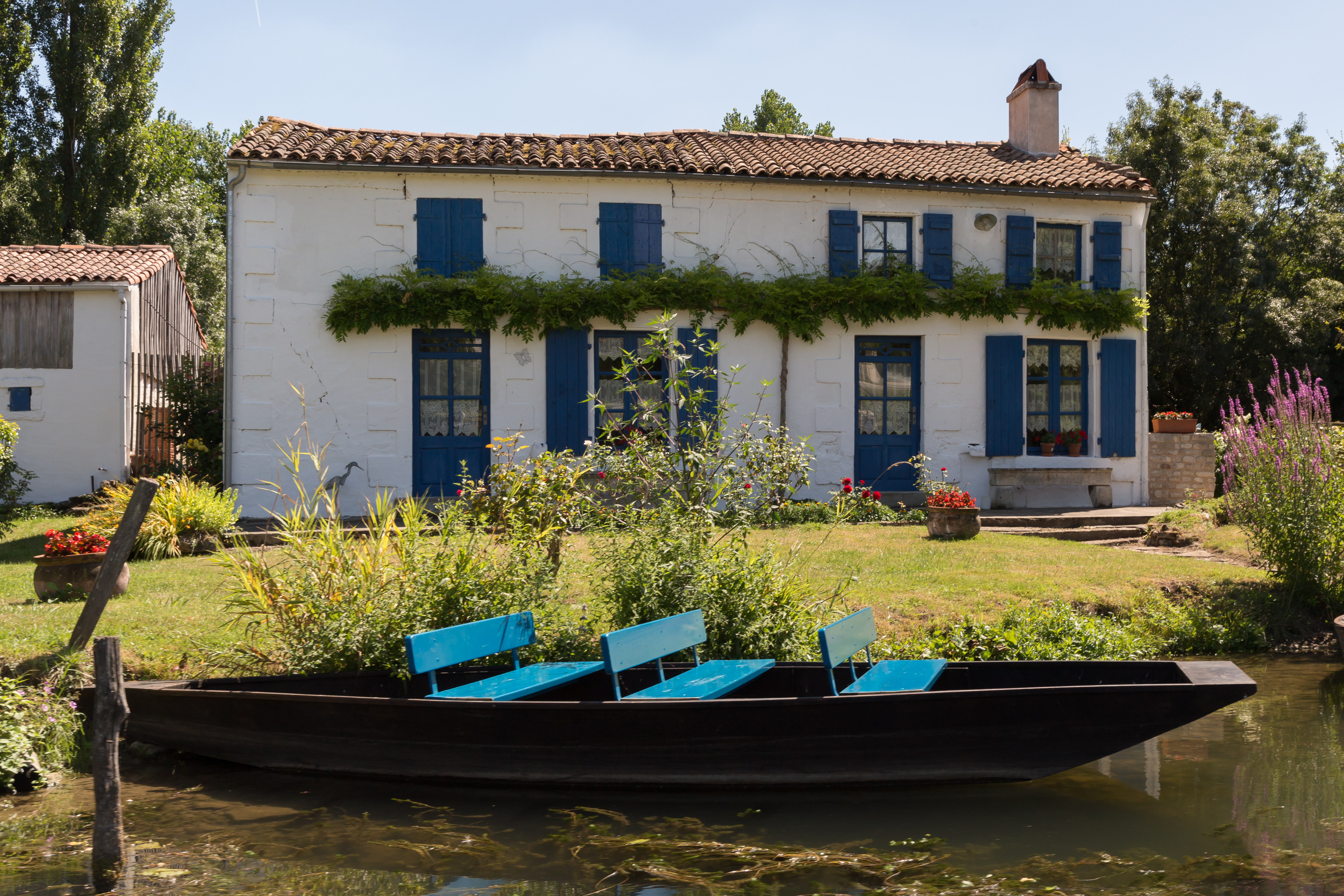 House at Sansais in the Marais poitevin, France.